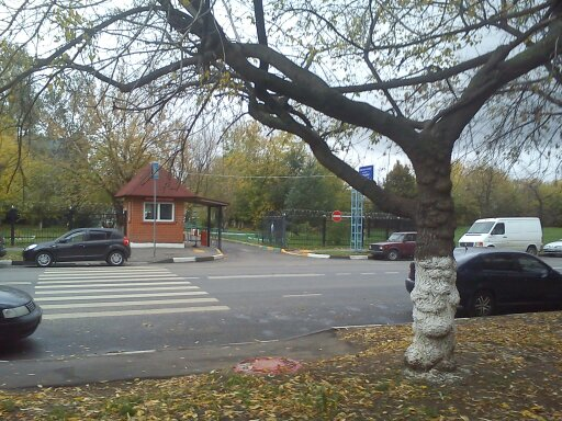 Department of Internal Affairs at Podolskaya Street. 2011. October.